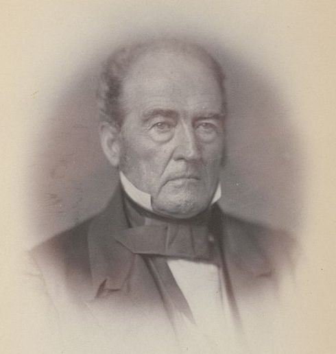 Portrait of American politician John Bell (1797–1869)